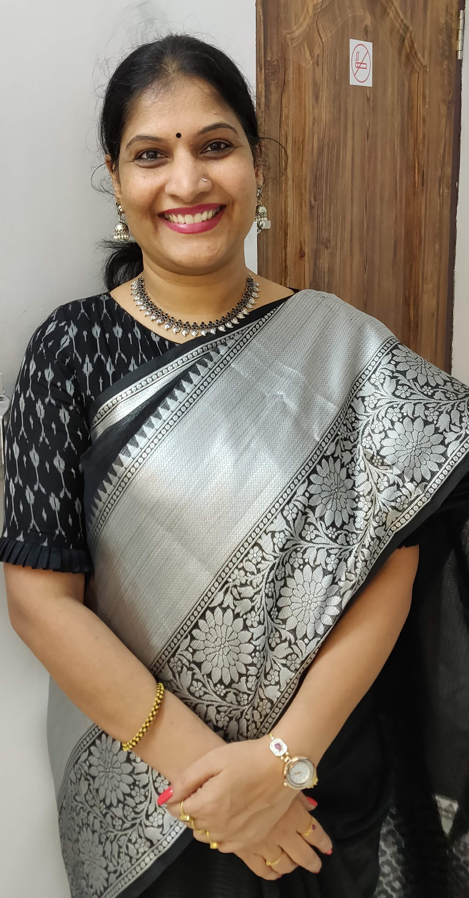 Swarna Kilari is a Telugu Writer and Film Actress from Hyderabad.